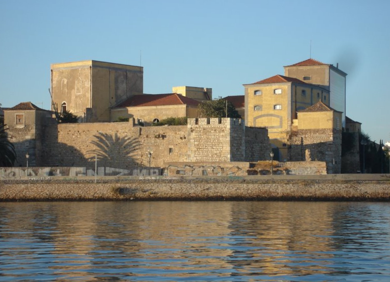 Cidade Velha em Faro, Portugal.